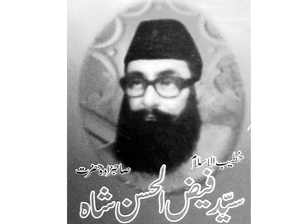 — Free Art license (info)